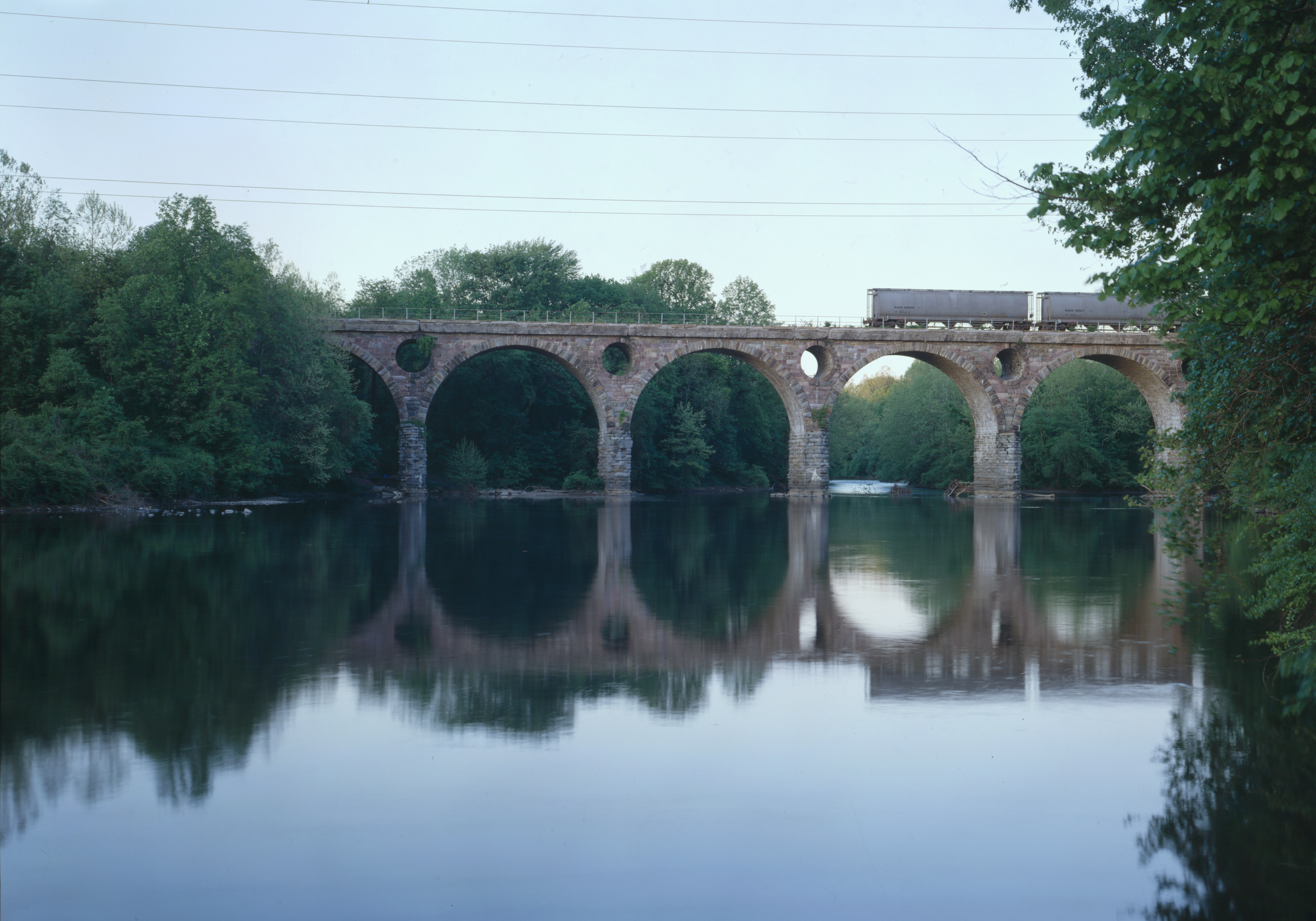 Philadelphia & Reading Railroad, Peacock's Lock Viaduct, Spanning Schuykill River at Reading Railroad, Reading, Berks County, PA